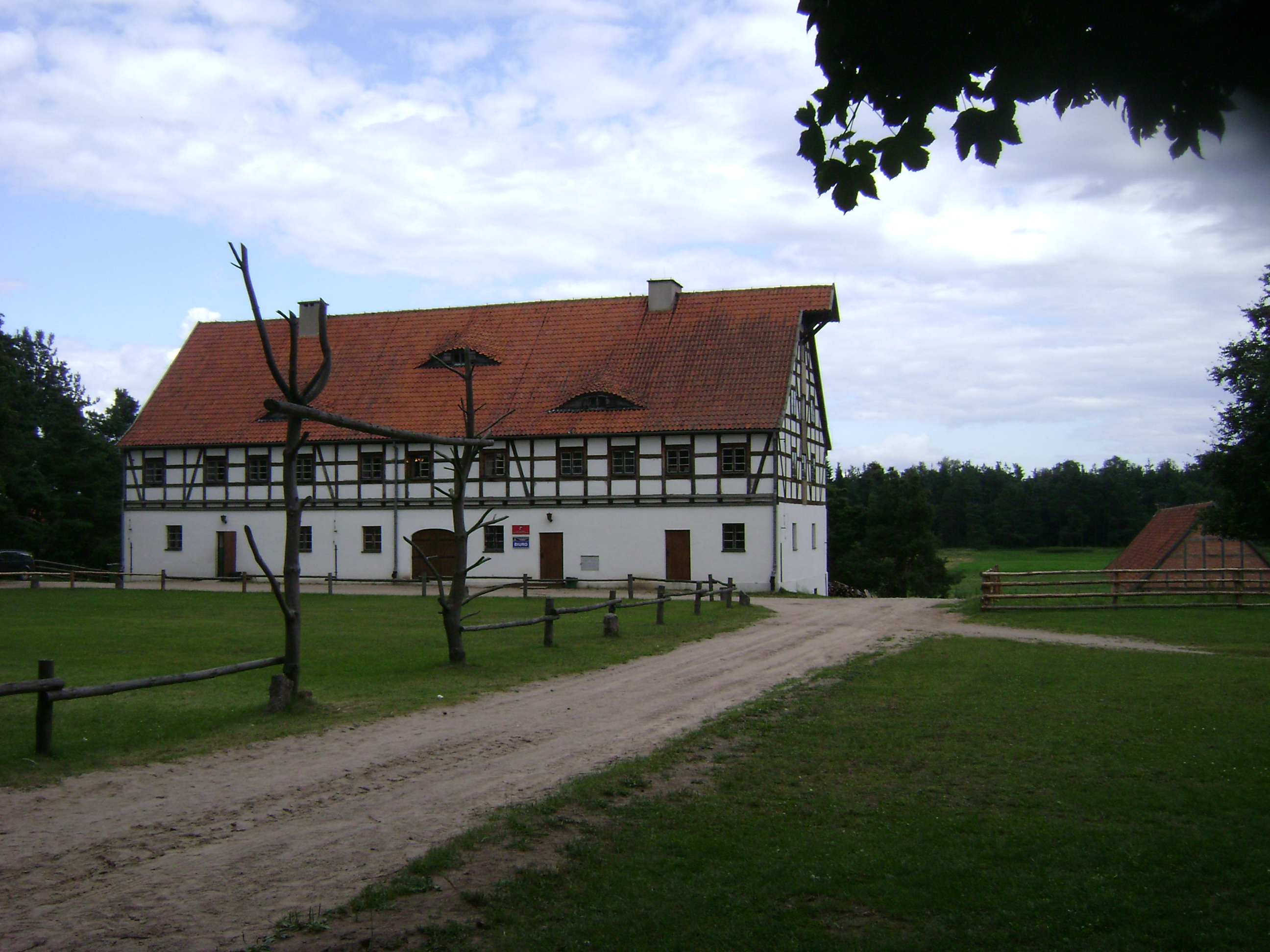 Ethnographic Park in Olsztynek - 20b. Manor granary from Skandawa village